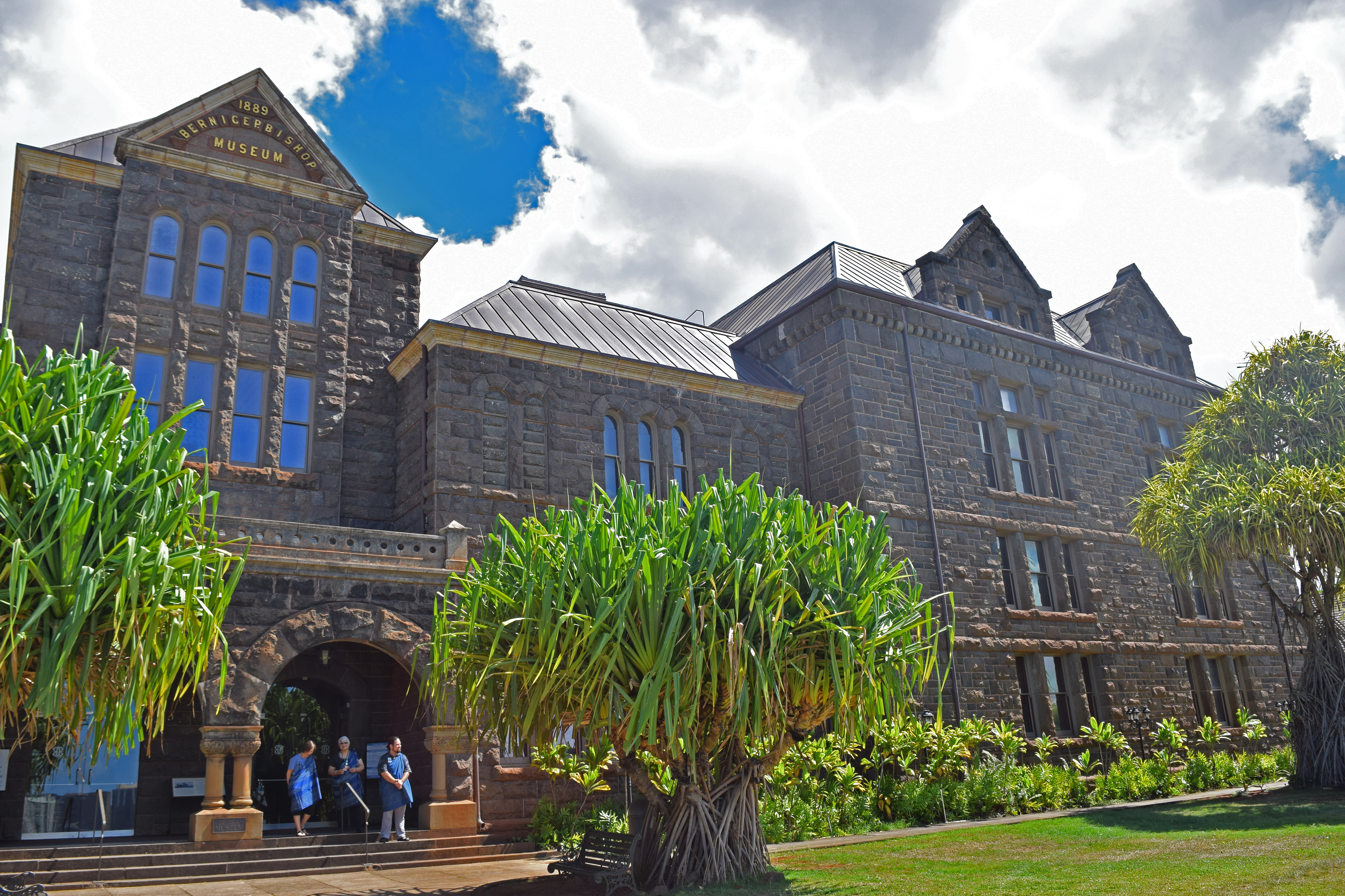 Exterior of the original Bishop Museum building in Kalihi, Hawaii.